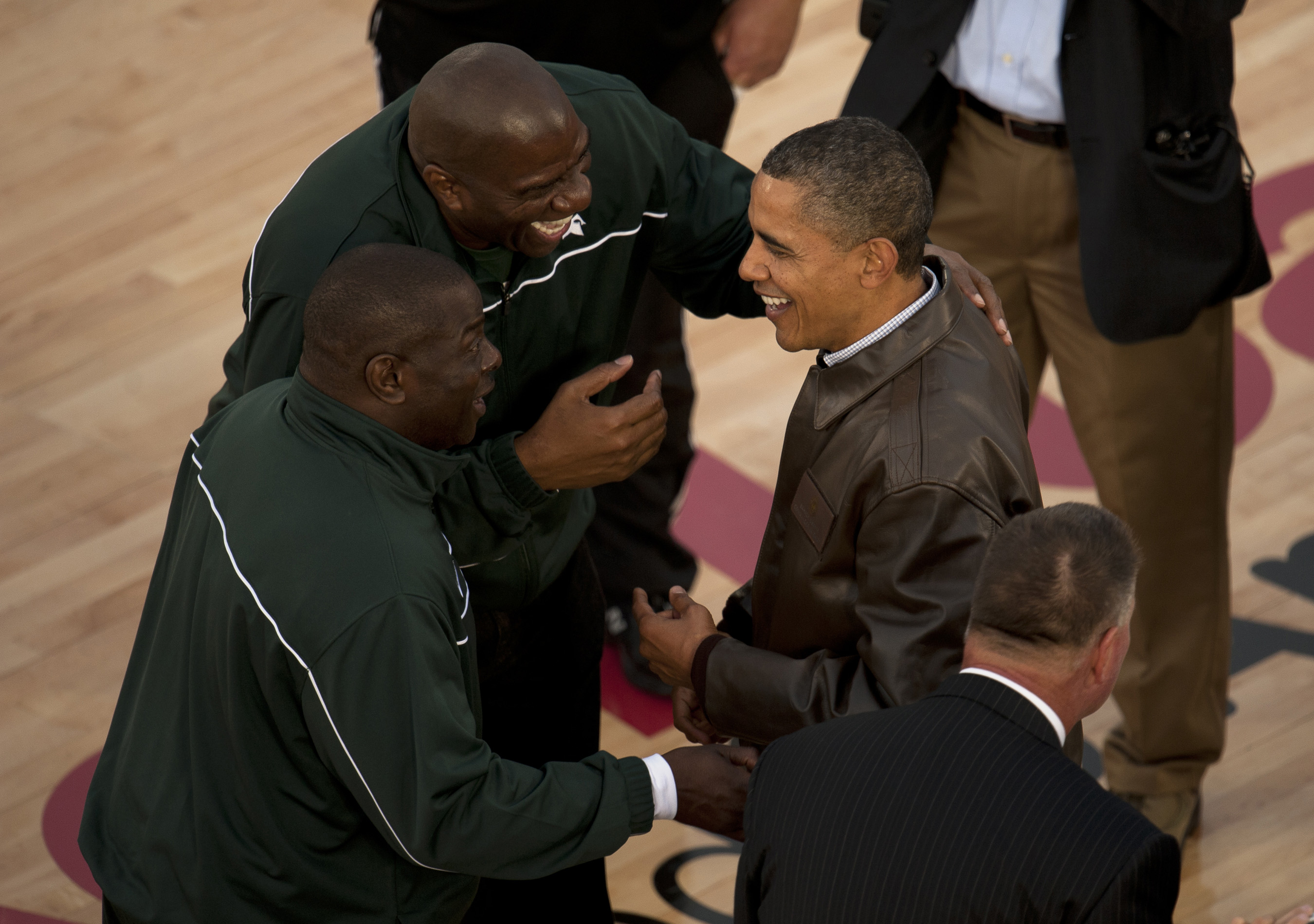 SAN DIEGO (Nov. 11, 2011) President Barack Obama, left, is greeted on the court by NBA Hall of Fame basketball player Earvin "Magic" Johnson, center, and Michigan State University assistant coach Mike Garland at the Quicken Loans Carrier Classic aboard the Nimitz-class aircraft carrier USS Carl Vinson (CVN 70). Carl Vinson hosted Michigan State University and the University of North Carolina for an NCAA basketball game. (U.S. Navy photo by Mass Communication Specialist 2nd Class James R. Evans/Released)